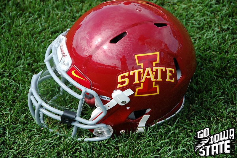 Iowa St